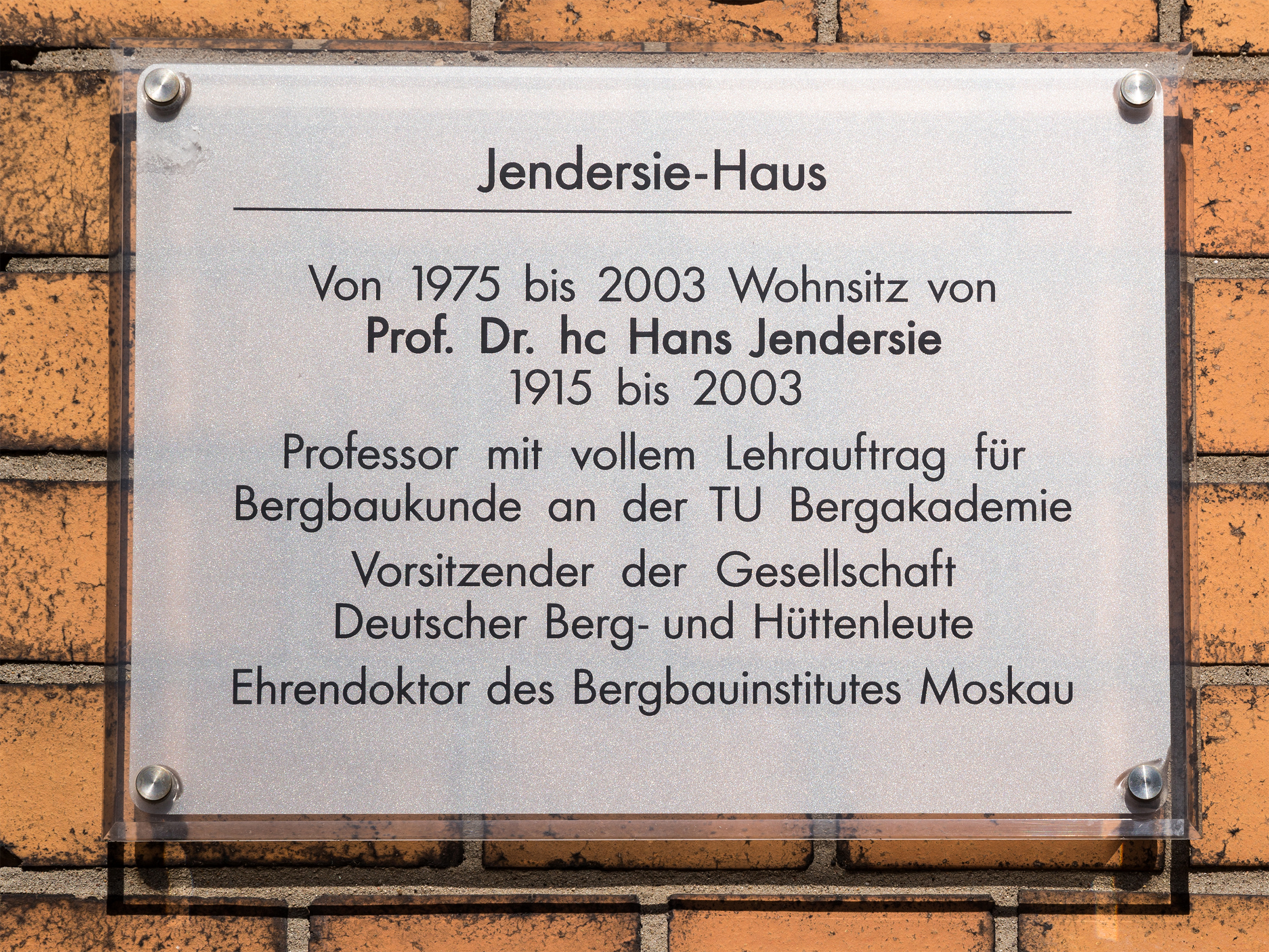 Freiberg, Leipziger Straße 18, memorial plaque to Hans Jendersie, who lived in this house from 1975 to 2003